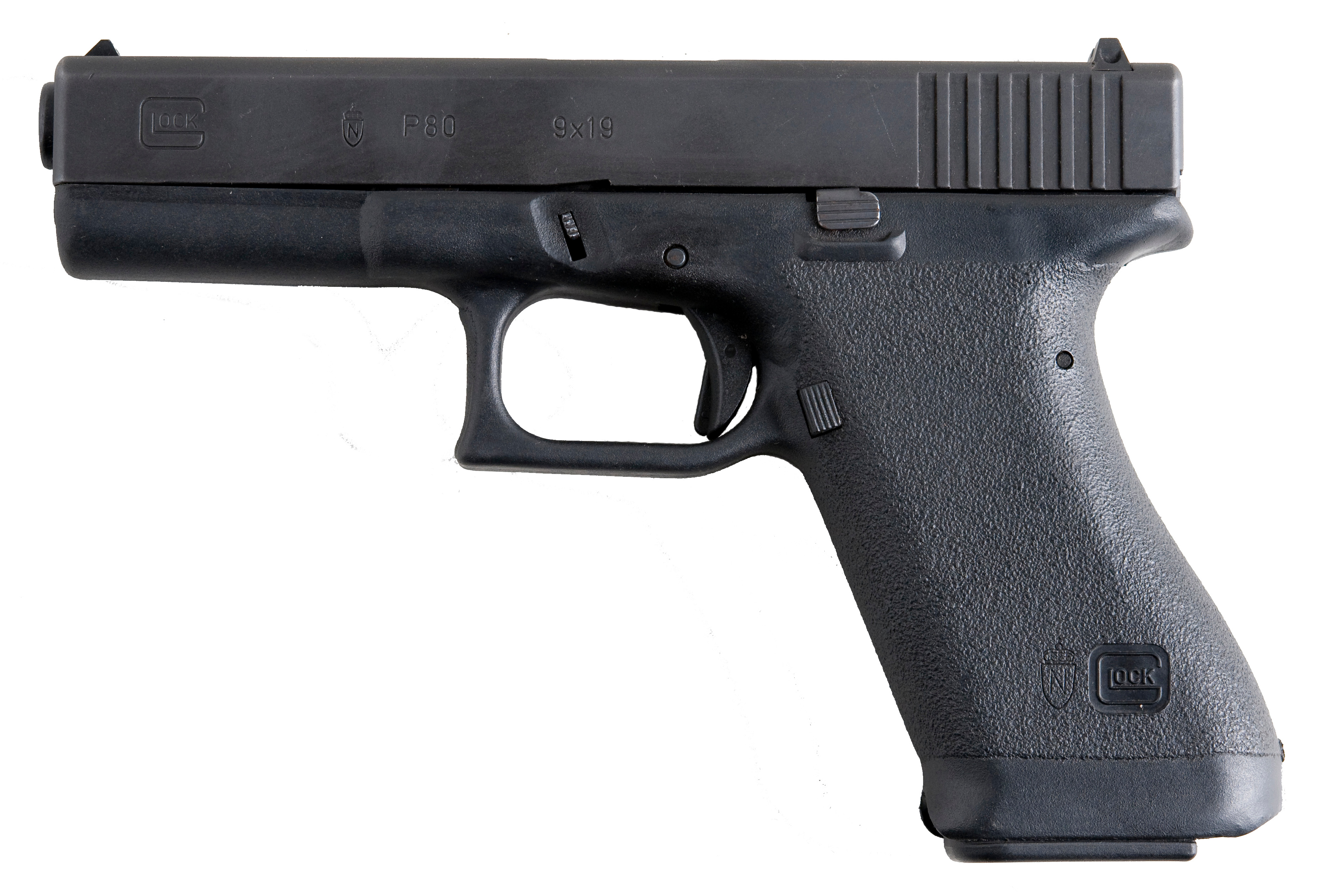 Glock 17 used by the Norwegian military under the P80 designation. NATO stock number (NSN) 1005-25-133-6775. From flickr user handvapensamlingen - Pistols used in Norway.